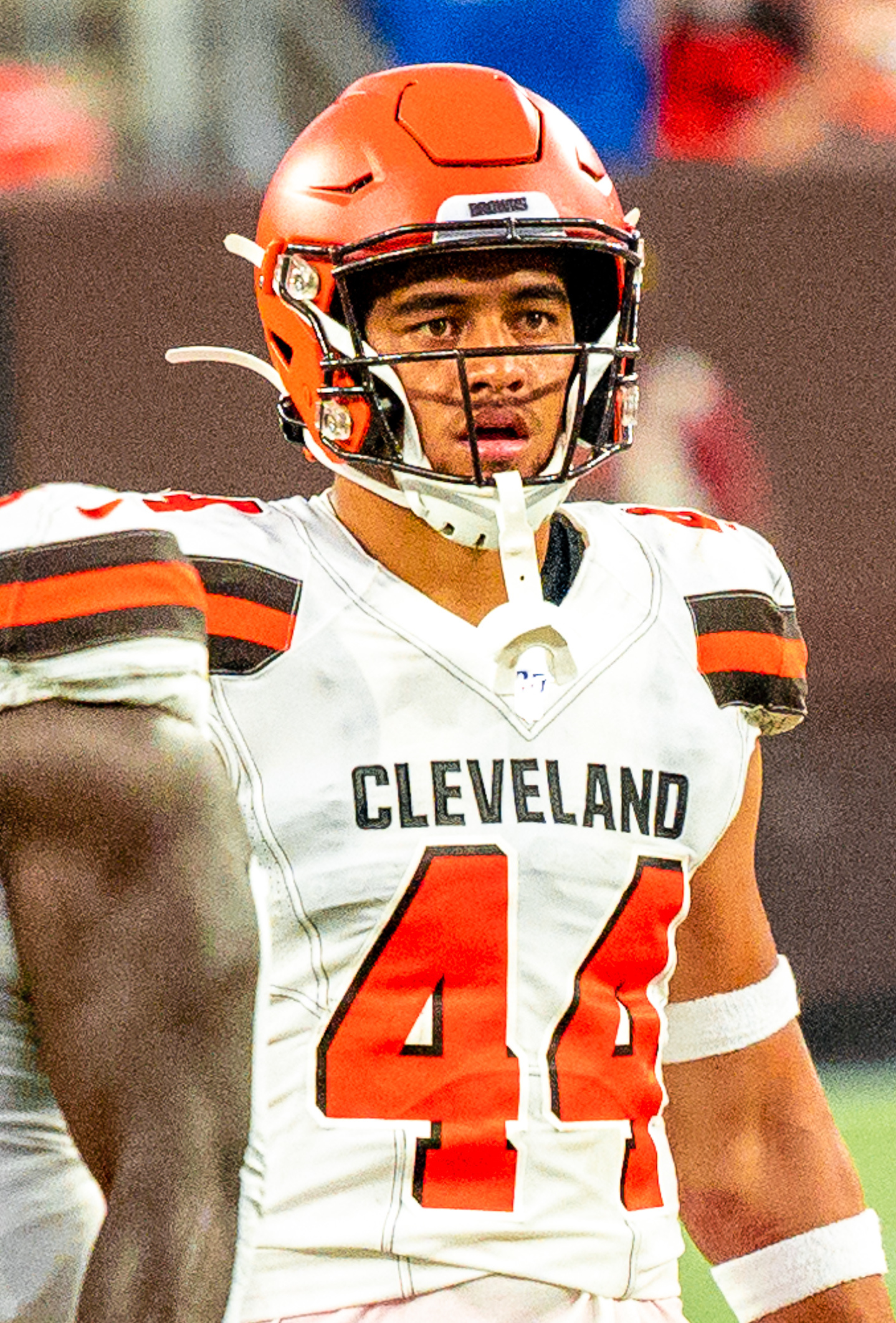 Cleveland Browns defensive tackle, Devaroe Lawrence, and linebacker Sione Takitaki playing in a preseason game against the Washington Redskins on August 8, 2019.